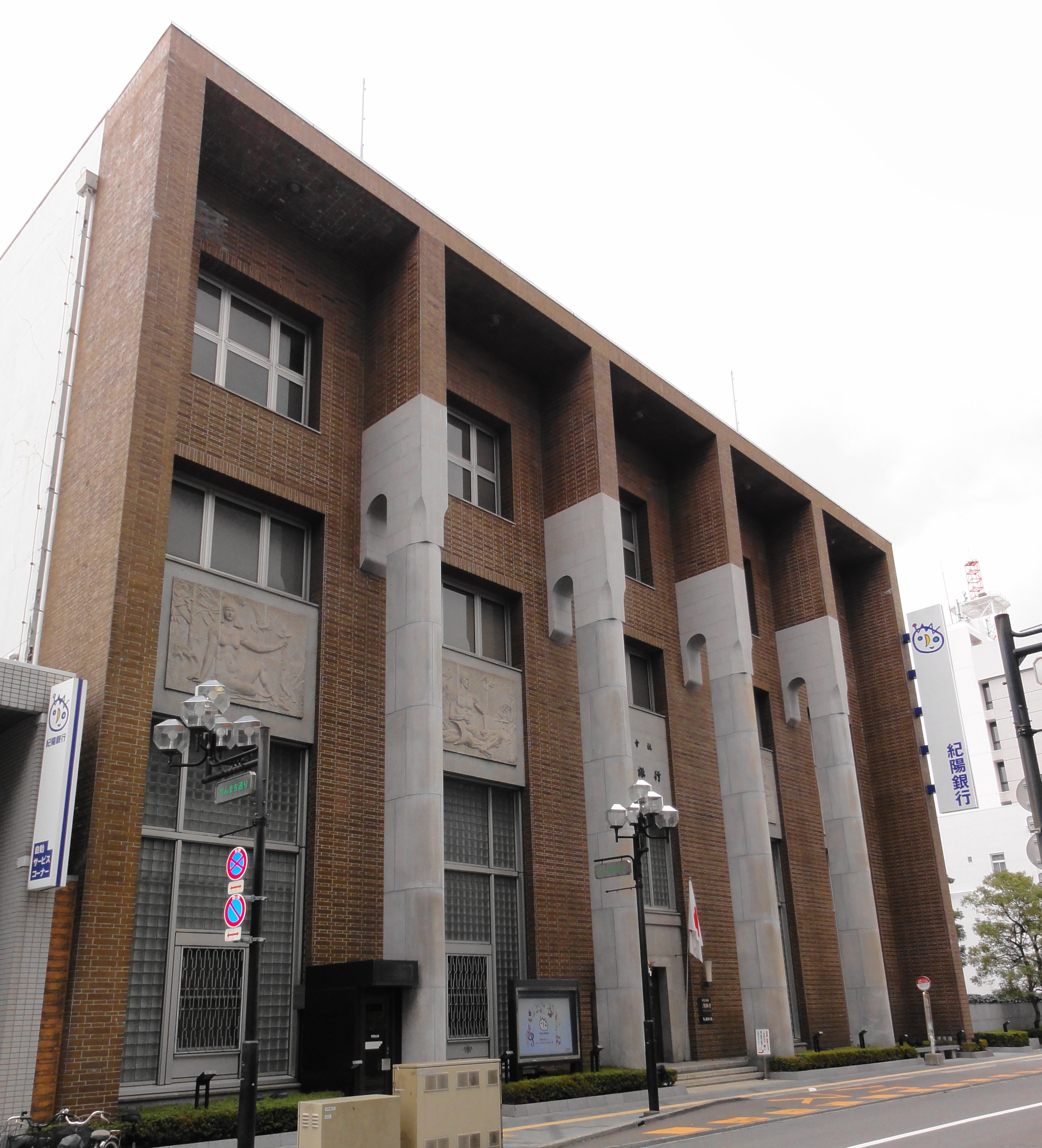 Kiyo bank(Head office),Wakayama prefecture, Japan